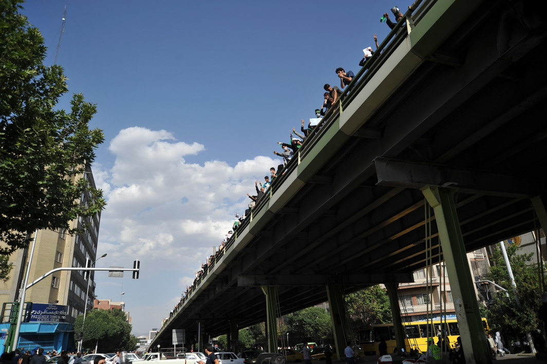 Protesters on the Karimkhaan Bridge during the silent demonstration from Hafte tir Sq. to Enghelaagh Sq., Tehran, June 16 - part of the 2009 Iranian election protests